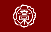 Flag of Takagi Nagano